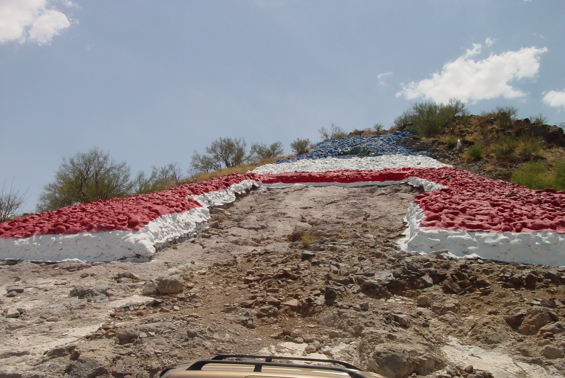 The "A" on Sentinel Peak, Tucson, Arizona.